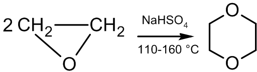 Dioxane synthesis